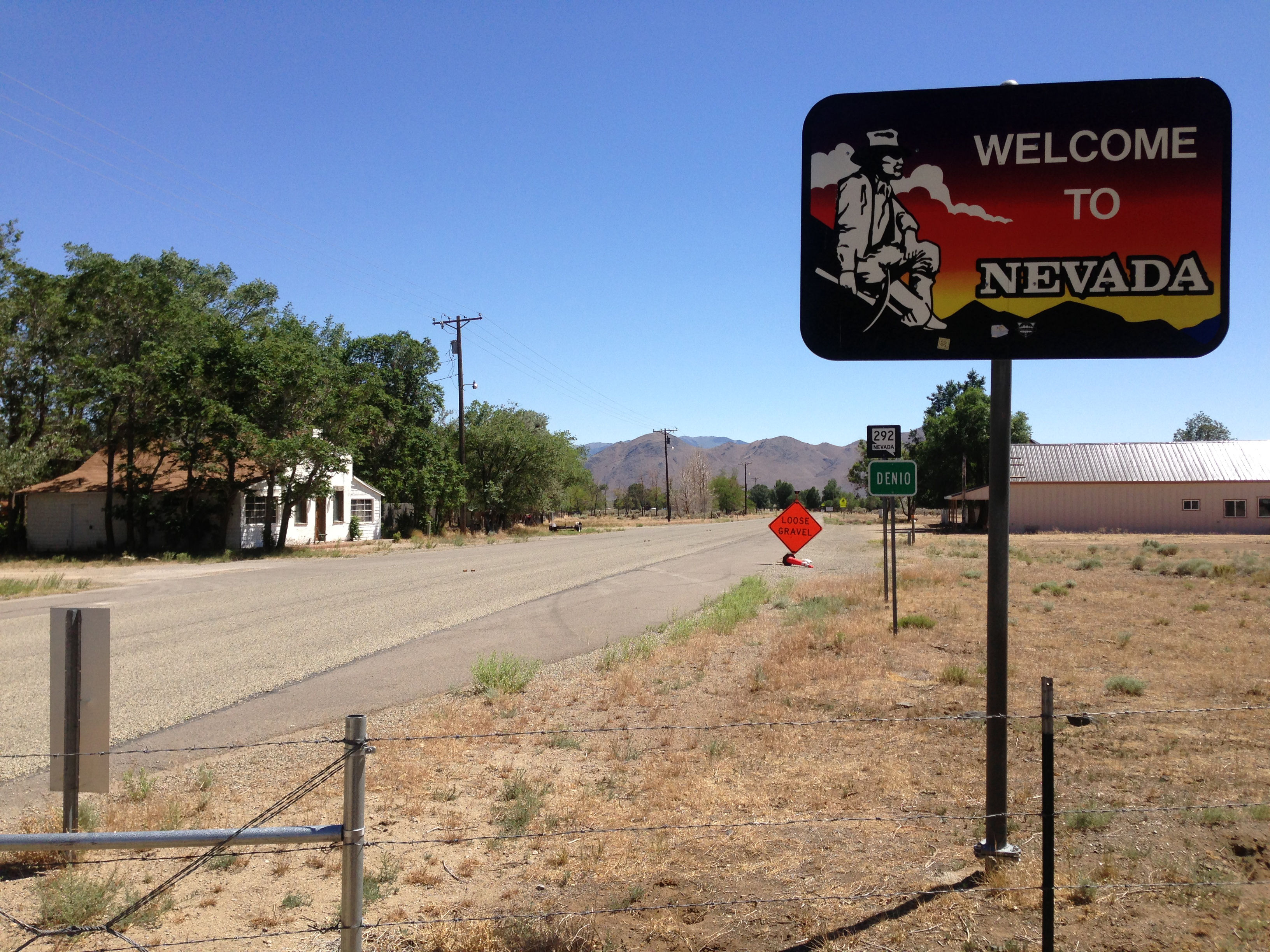 View south along Nevada State Route 292 (Denio Road) at the end of Harney County Route 201 (Fields-Denio Road) at the Oregon border near Denio, Nevada